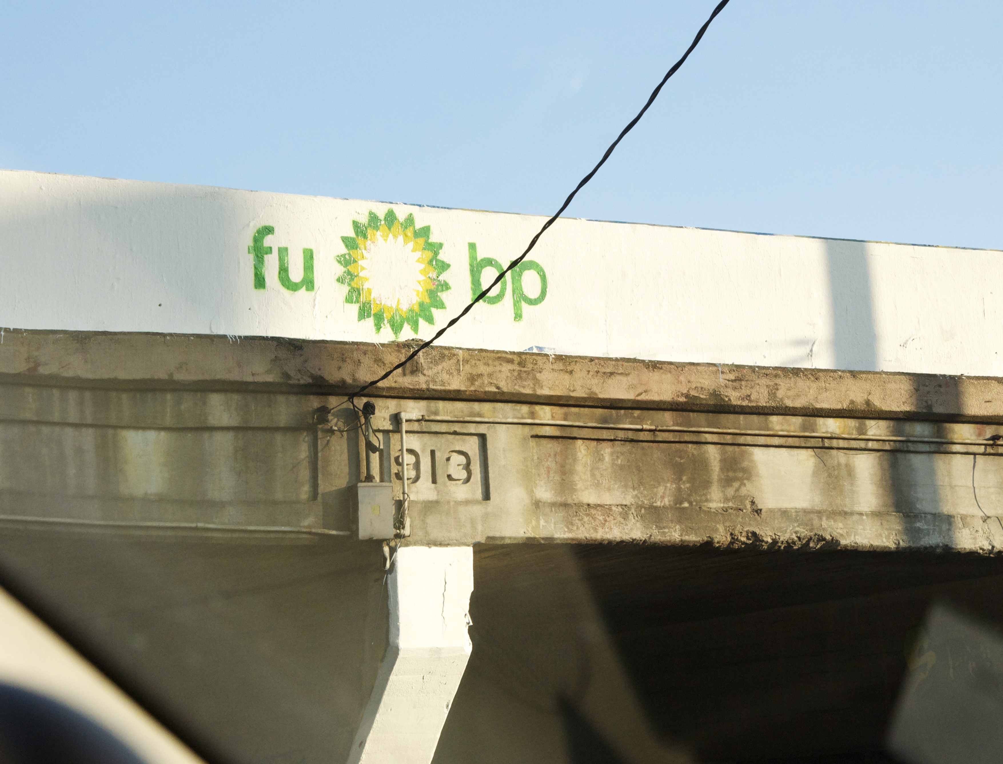 Painting during the BP oil spill in 2010